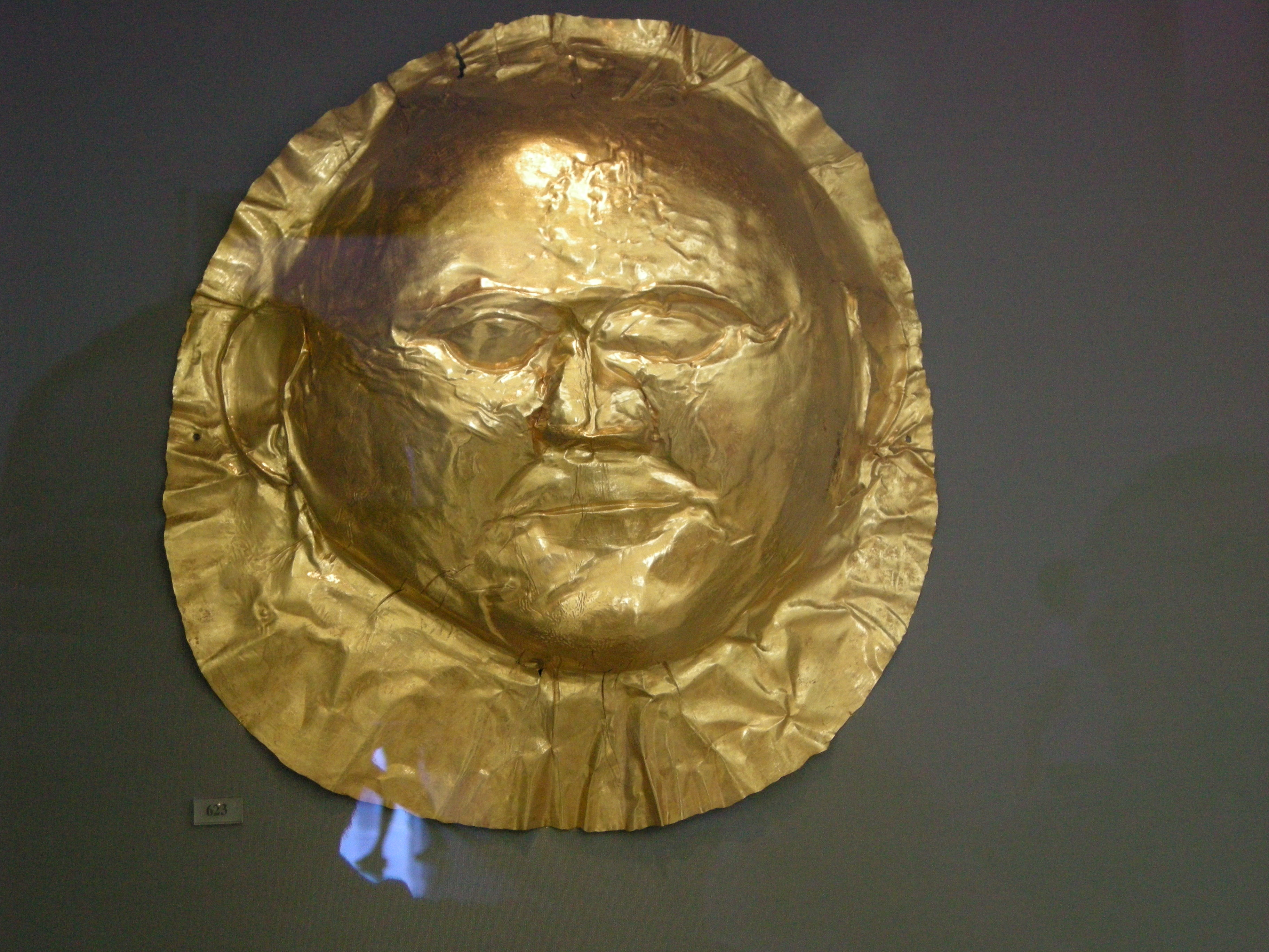 Gold male death-mask made of sheet metal with repoussé details portraying the deceased. Mycenae, 1600-1500 b.C. Exhibited in the National Archaeological Museum in Athens.